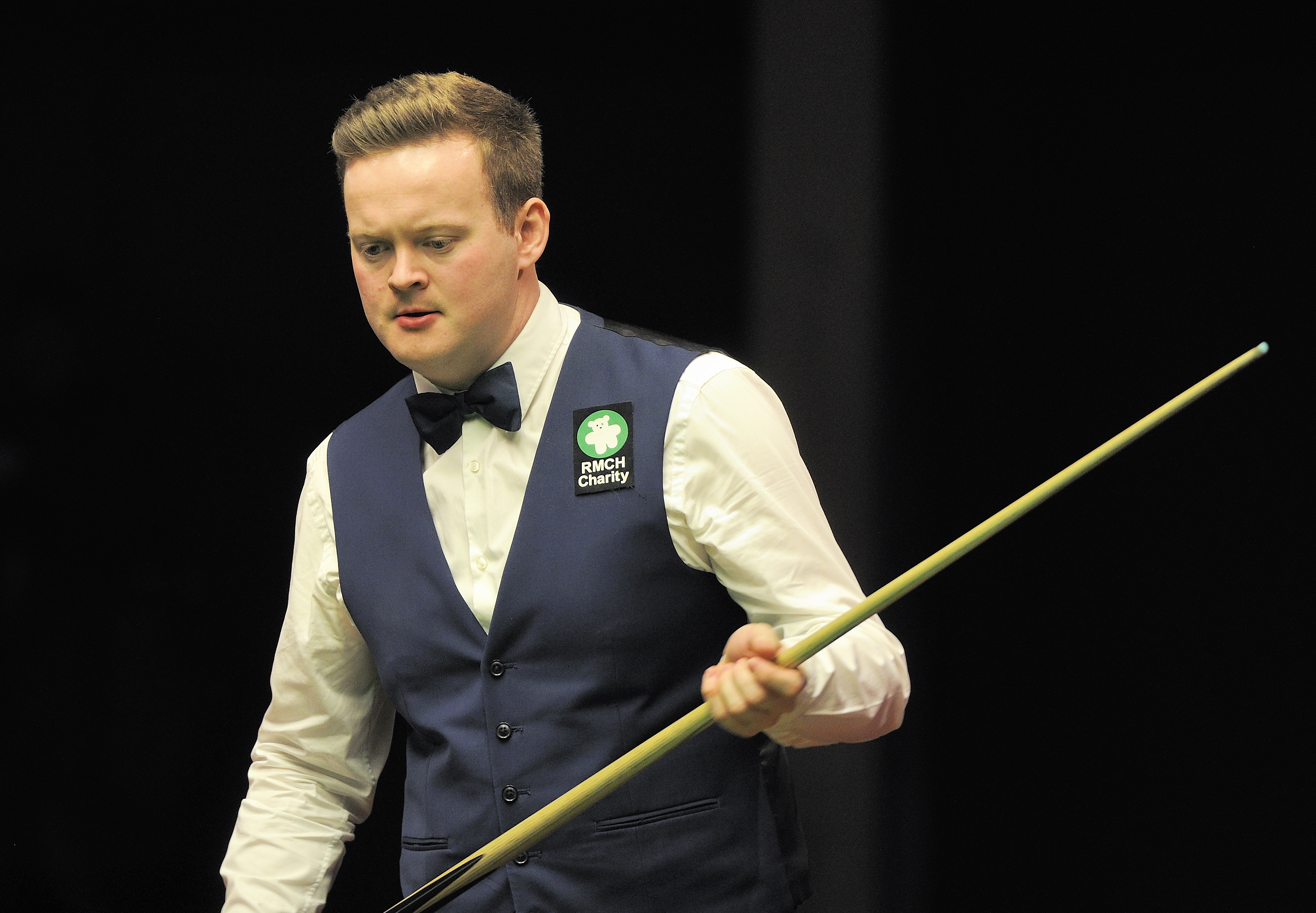 Picture taken in Berlin during the Snooker German Masters in 2014. Shaun Murphy.